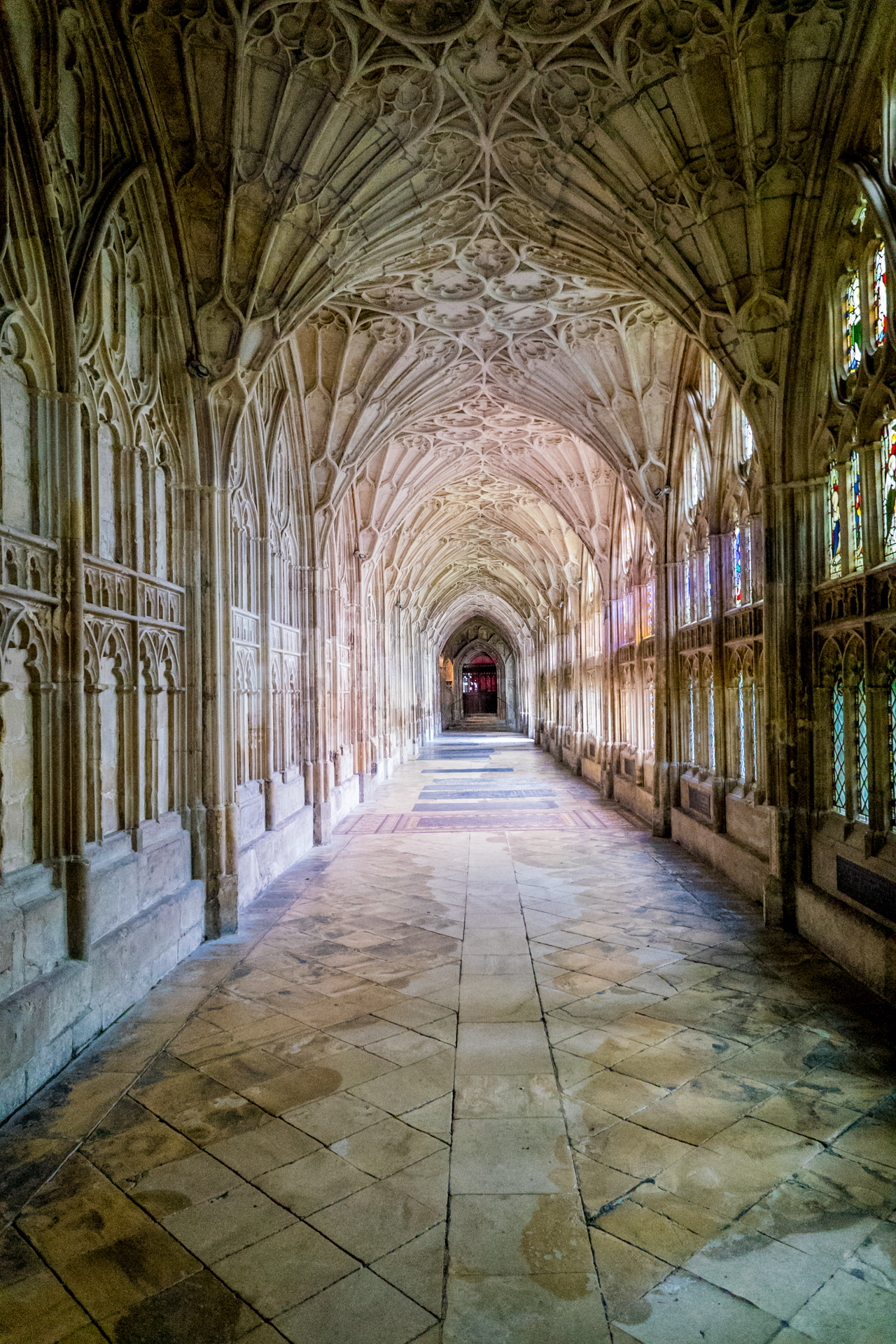 Gloucester Cathedral